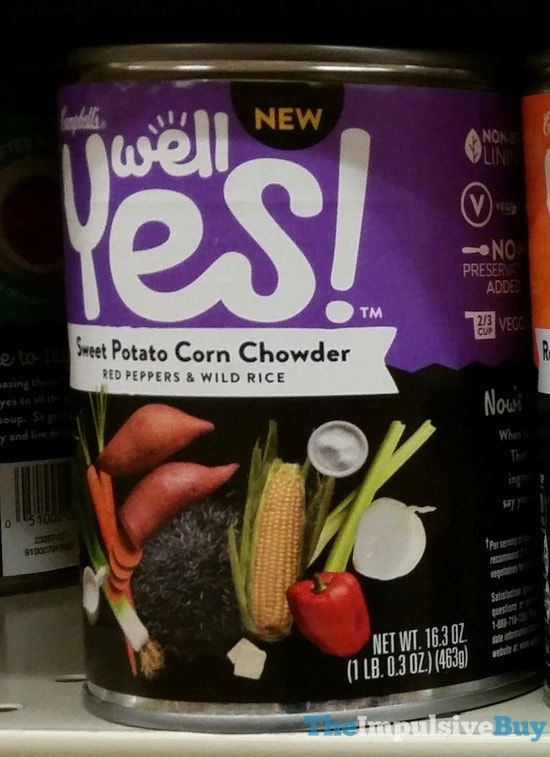 Campbell's Well Yes Sweet Potato Corn Chowder